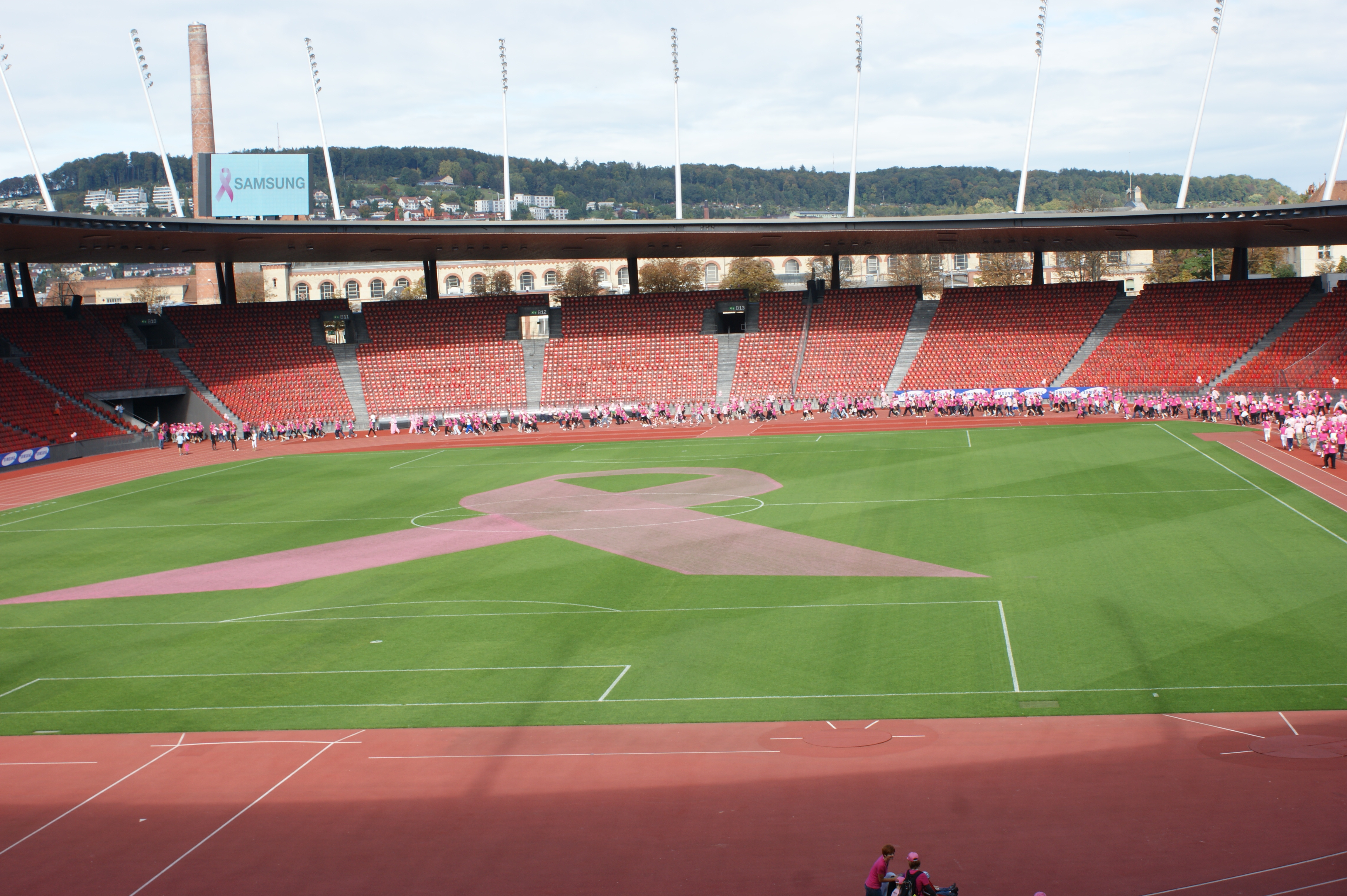 Pink Ribbon Charity Walk 2010 in Zurich's Letzigrund Stadium